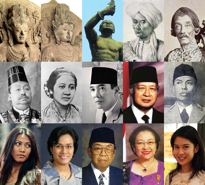 Notable Javanese people; from top to bottom: top row: Raden Wijaya, Tribhuwana Wijayatunggadewi, Gajah Mada, Diponegoro, Raden Saleh. middle row: Pakubuwono X, Kartini, Sukarno, Suharto, Sudirman, bottom row: Sri Mulyani Indrawati, Abdurrahman Wahid, Megawati Sukarnoputri, Dian Sastrowardoyo.